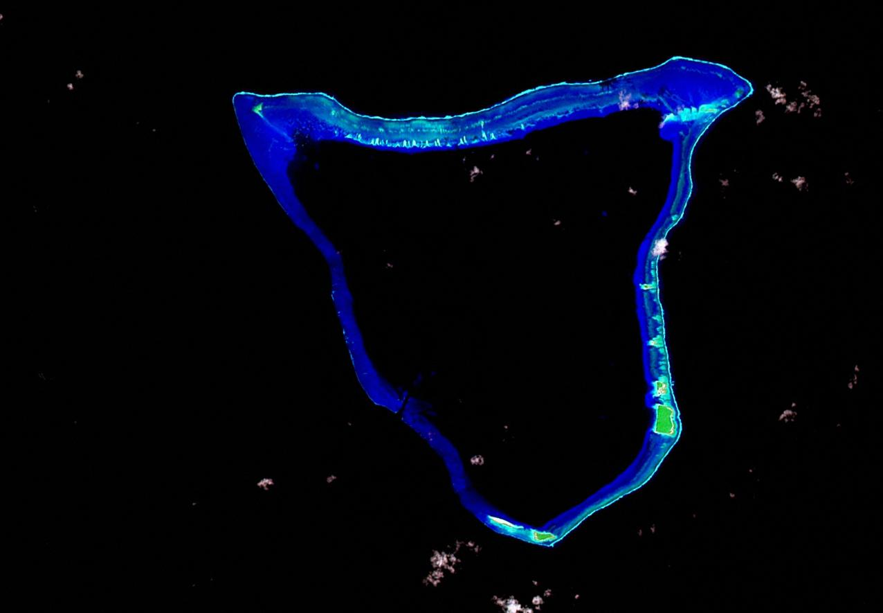 False color Landsat image of Taka (Toke), RMI, 2000.